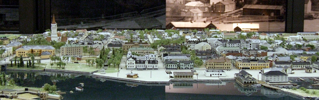 The scale model of the city of Oulu in the year 1938. Model is in the Northern Ostrobothia Museum in the Ainola Park Oulu, Finland. The model is about 20 sq. meters.